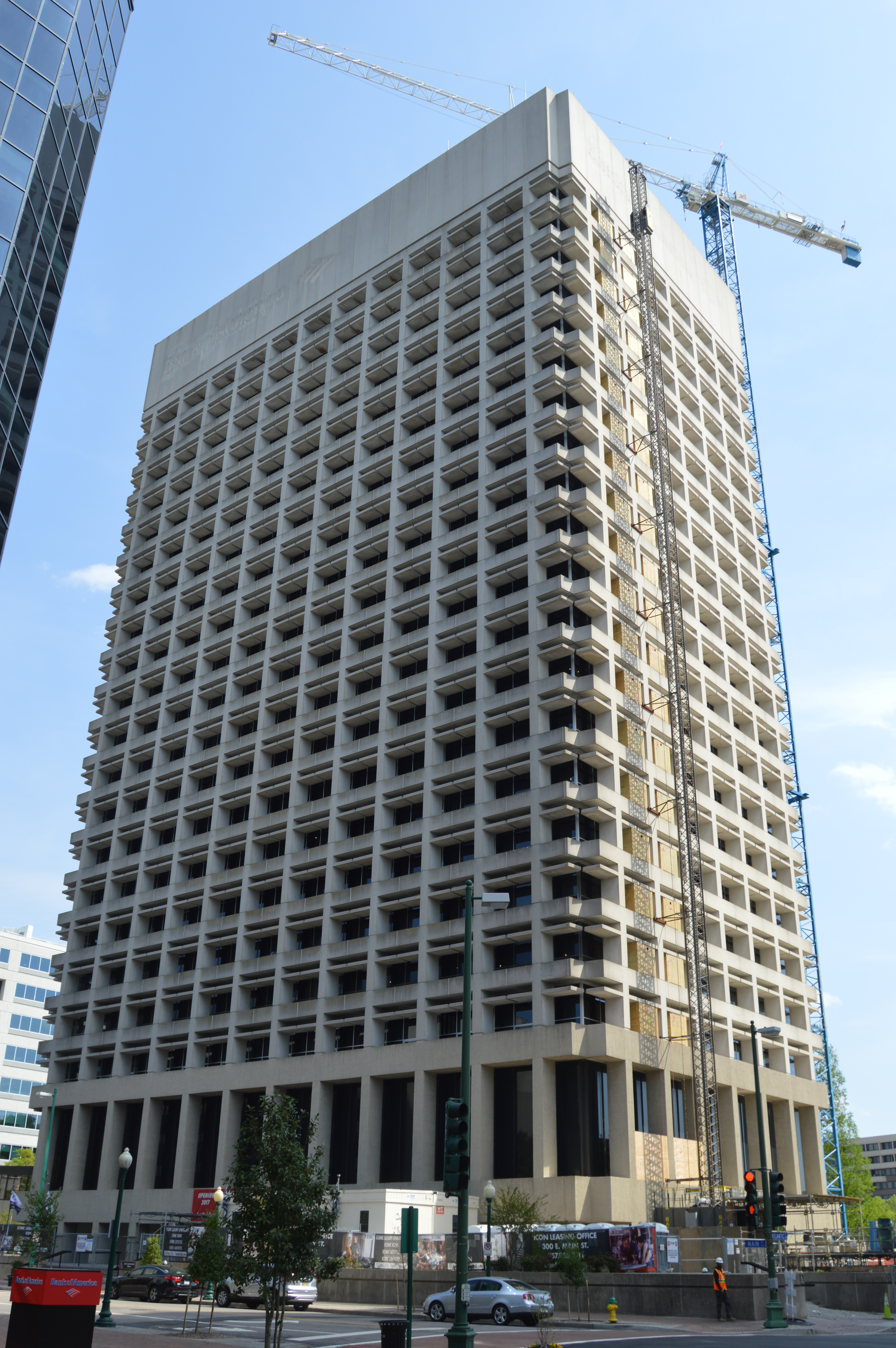 Front and northern side of the former Virginia National Bank Headquarters (in this picture, undergoing conversion to apartments), located at Main Street at Atlantic Street in downtown Norfolk, Virginia, United States. Built in 1967, it is listed on the National Register of Historic Places, together with an adjacent parking garage, as a historic district.